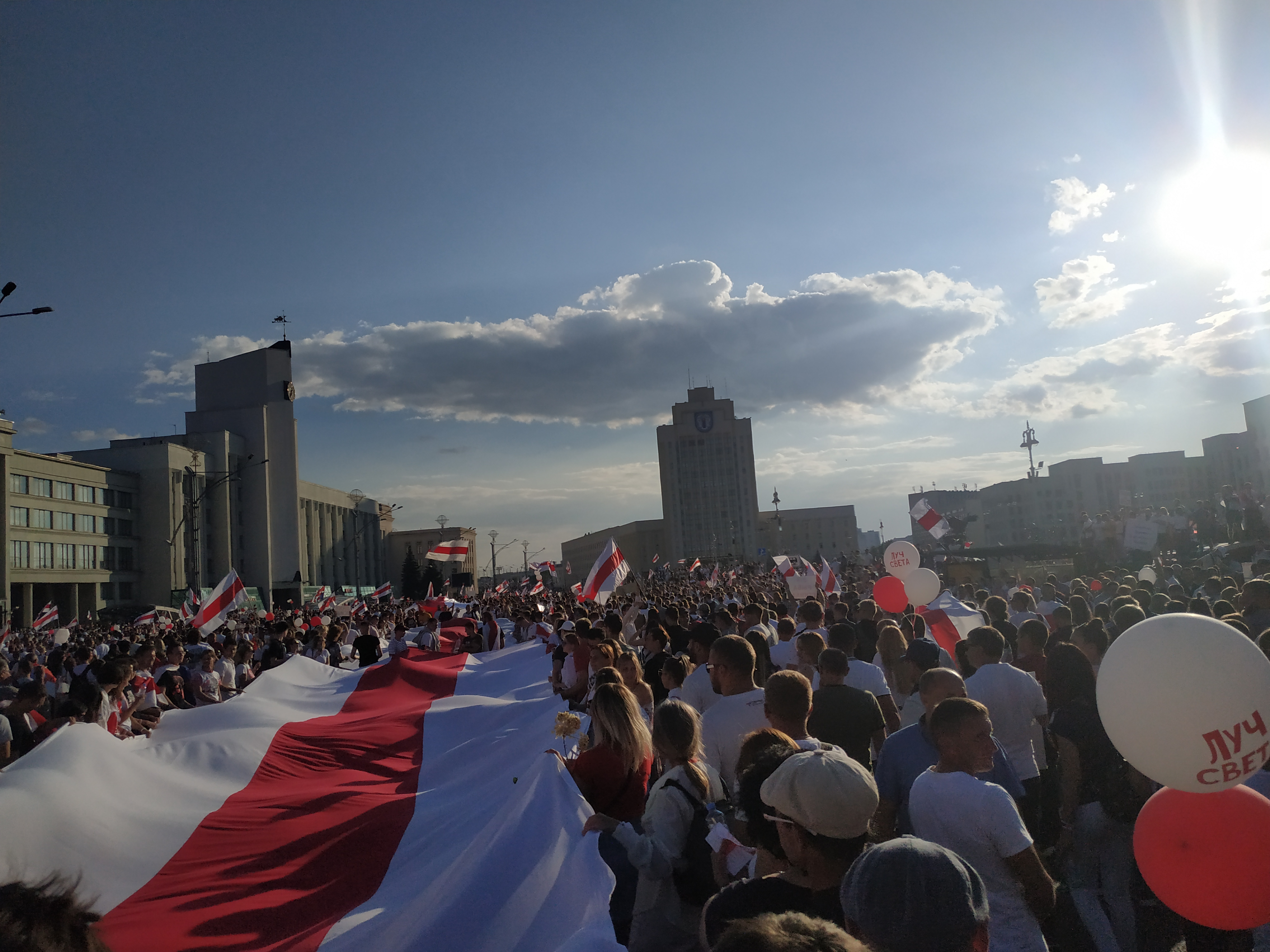 Protest actions in Minsk (Belarus), August 16